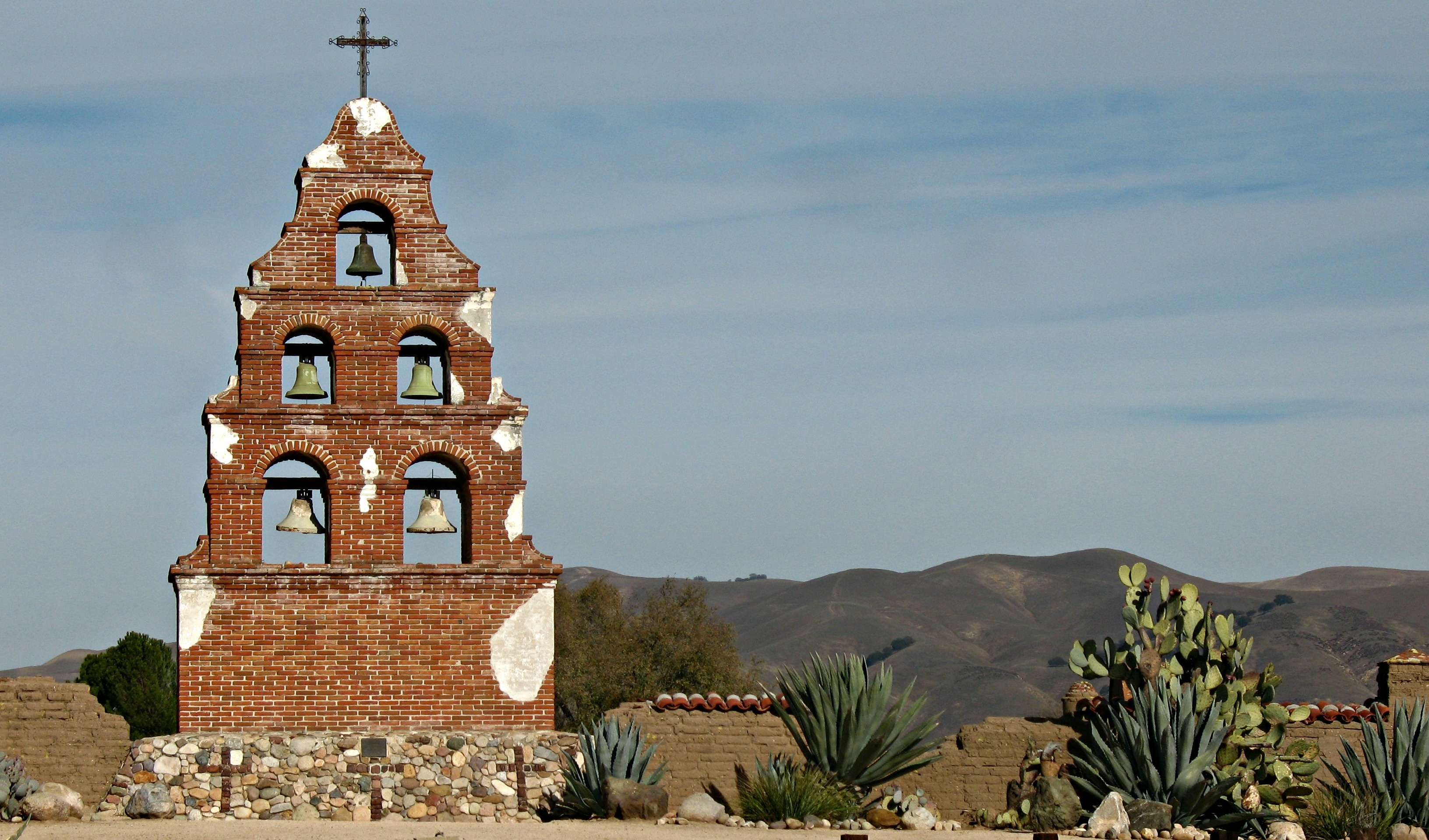 Mission San Miguel is one of the 21 missions throughout the state of California. It is the 16th mission to be established.